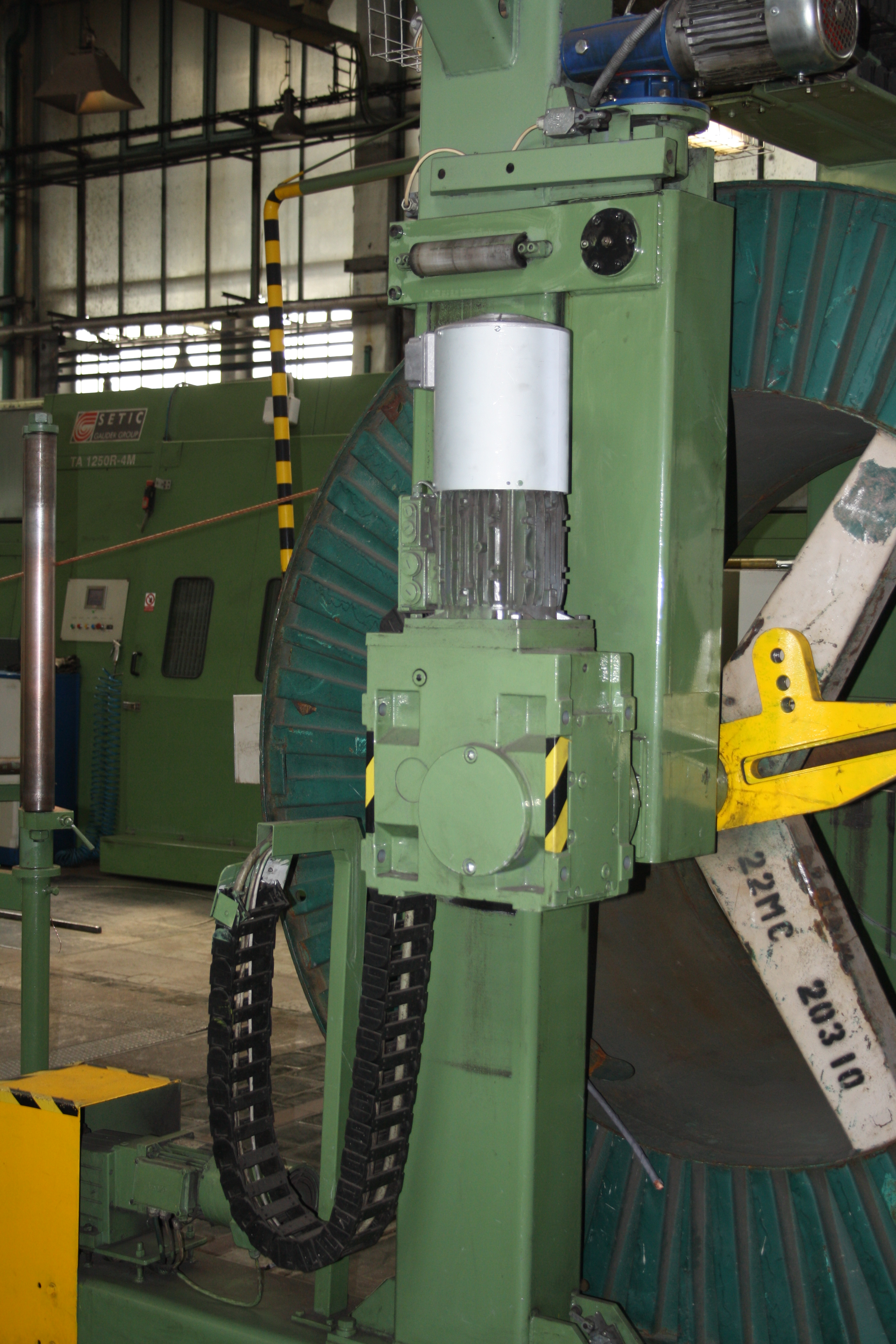 Cable drag chain in cable factory